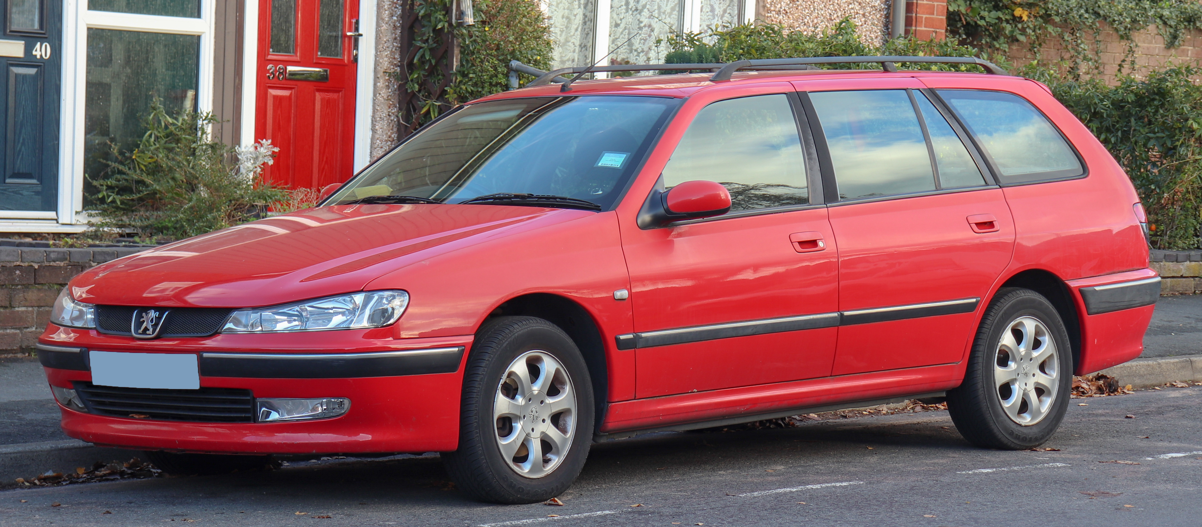 2001 Peugeot 406 Rapier HDi Estate 2.0 Front Taken in Warwick